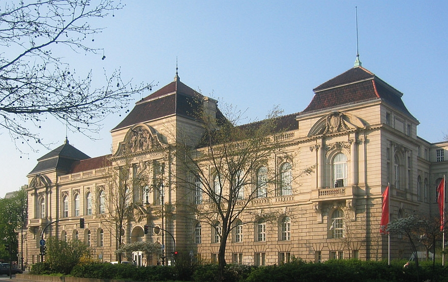 Berlin, UdK University. Building of the Faculty of Music, Hardenbergstraße